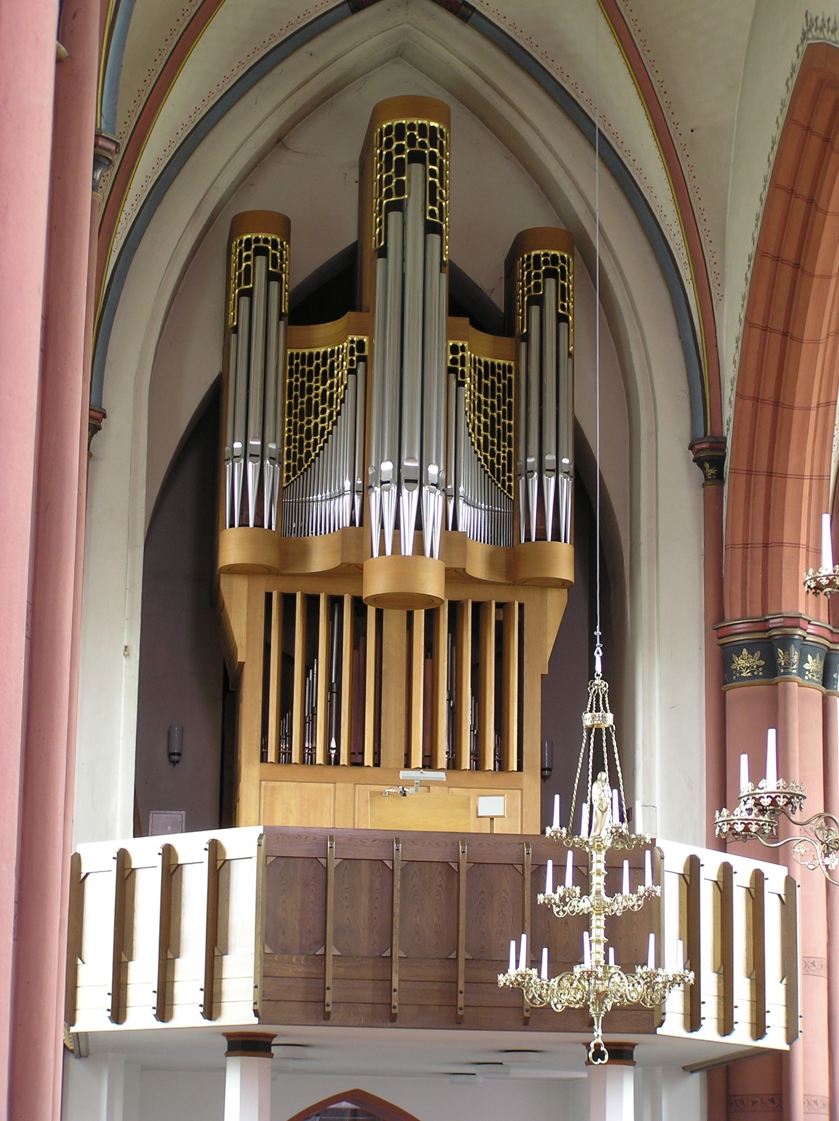 Klais-organ in Kleve, Germany